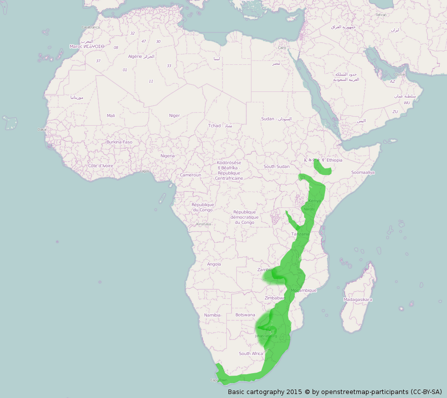 Distribution area of Red-winged Starling (Onychognathus morio) in Africa